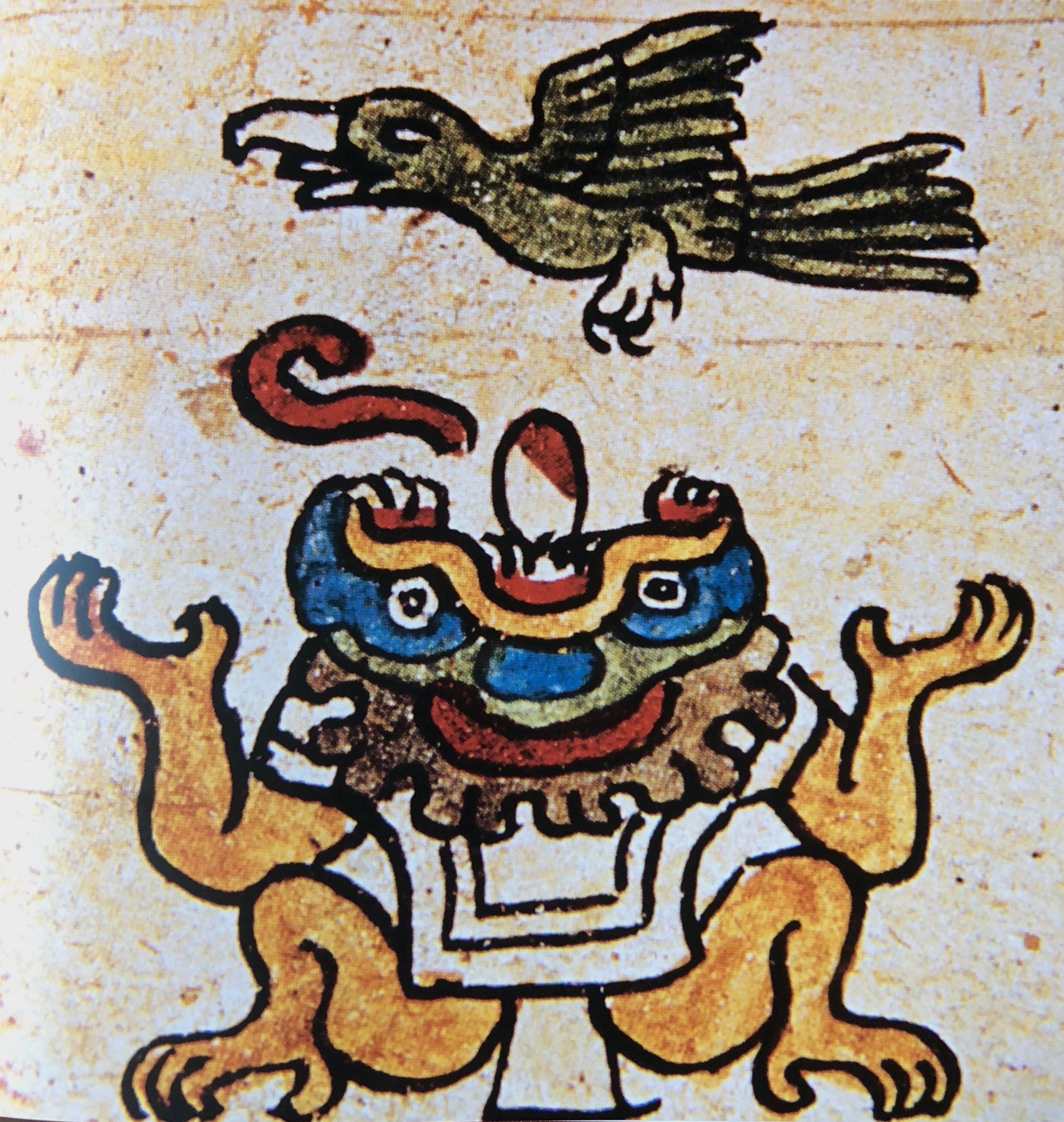 Image of Tlaltecuhtli found in the Codex Borbonicus